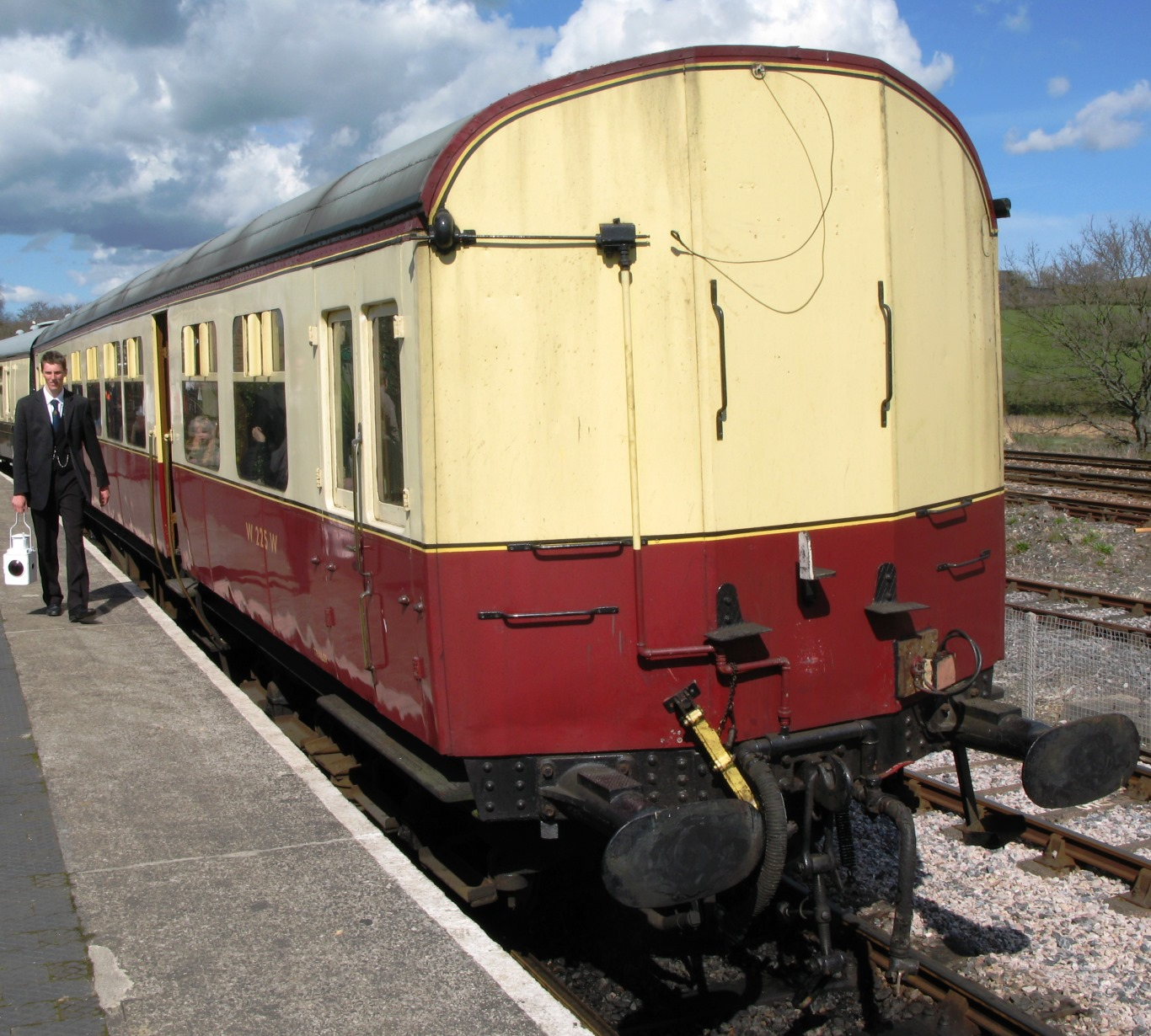 Former GWR auto coach 225 preserved on the South Devon Railway in British Railways llivery. This picture shows the non-driving end that would be coupled to the locomotive; the coach's driving cab is at the far end.